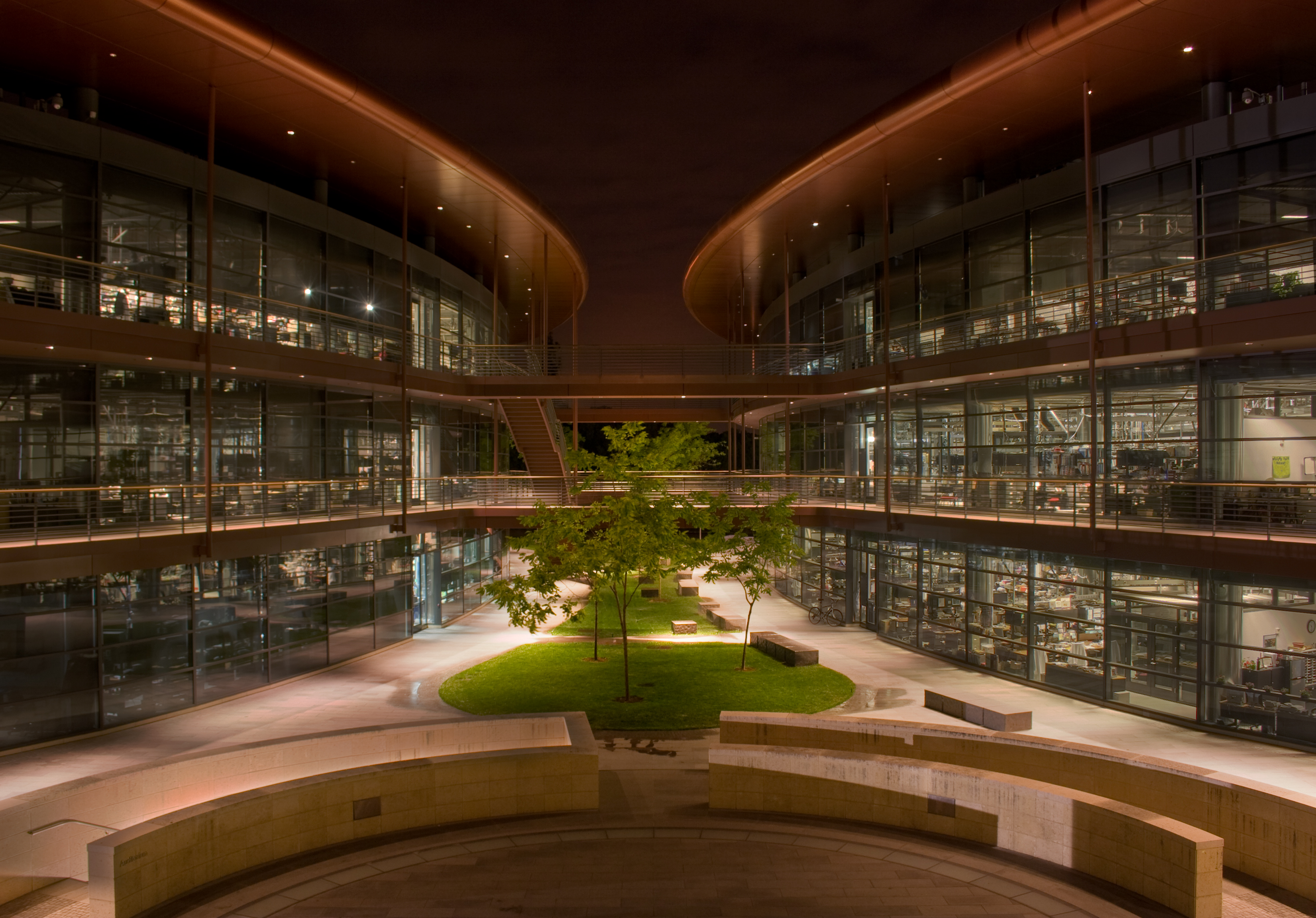 High dynamic range composite of Stanford's James H. Clark Center at night. (Actually a composite of an earlier HDR composite and some new exposures.) Taken on a Canon Rebel XT at ISO 100 with an EF-S 18-55mm lens at 18mm.